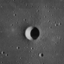 Euclides D, on the moon.